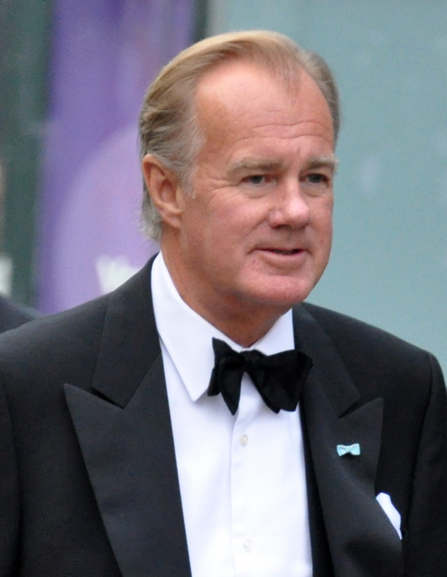 Stefan Persson arriving at the Riksdag's gala performance at the Stockholm Concert Hall in connection with the wedding of Crown Princess Victoria and Daniel Westling.